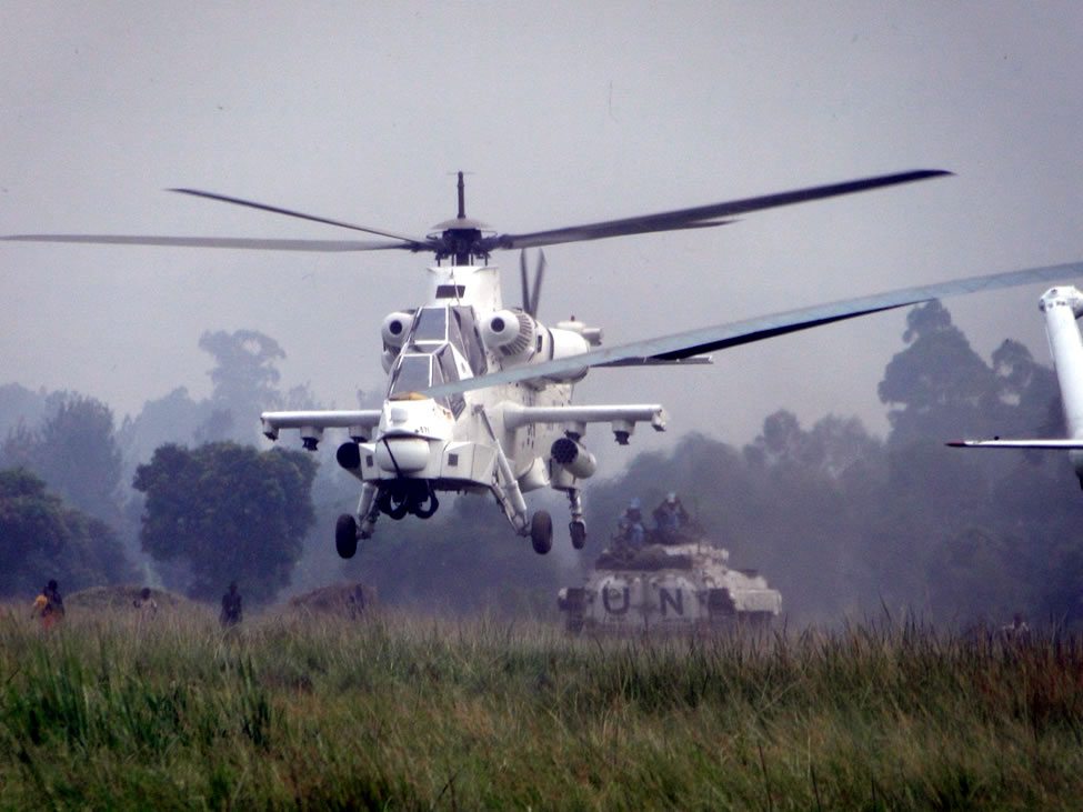 MONUSCO’s Attack Helicopter providing aerial and ground protection of a convoy carrying FDLR Ex–Combatants on their de- induction from Kanyabayonga transit camp.